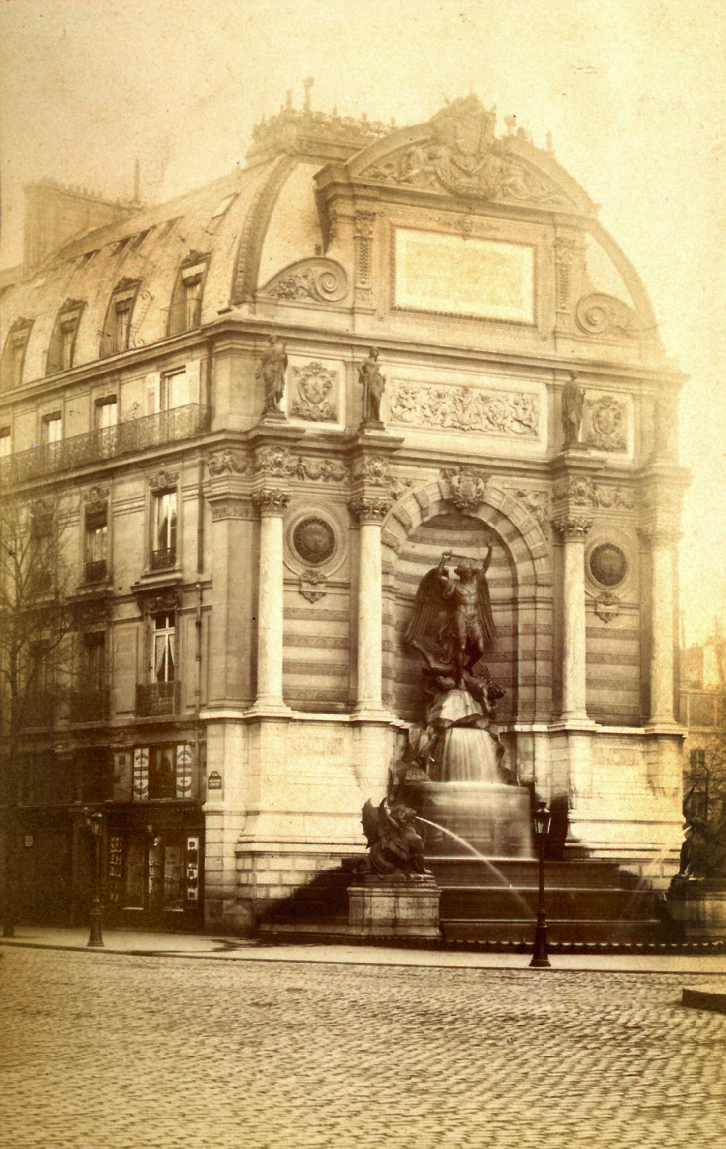 The last wall fontain build in Paris in 1860(pic circa 1880)